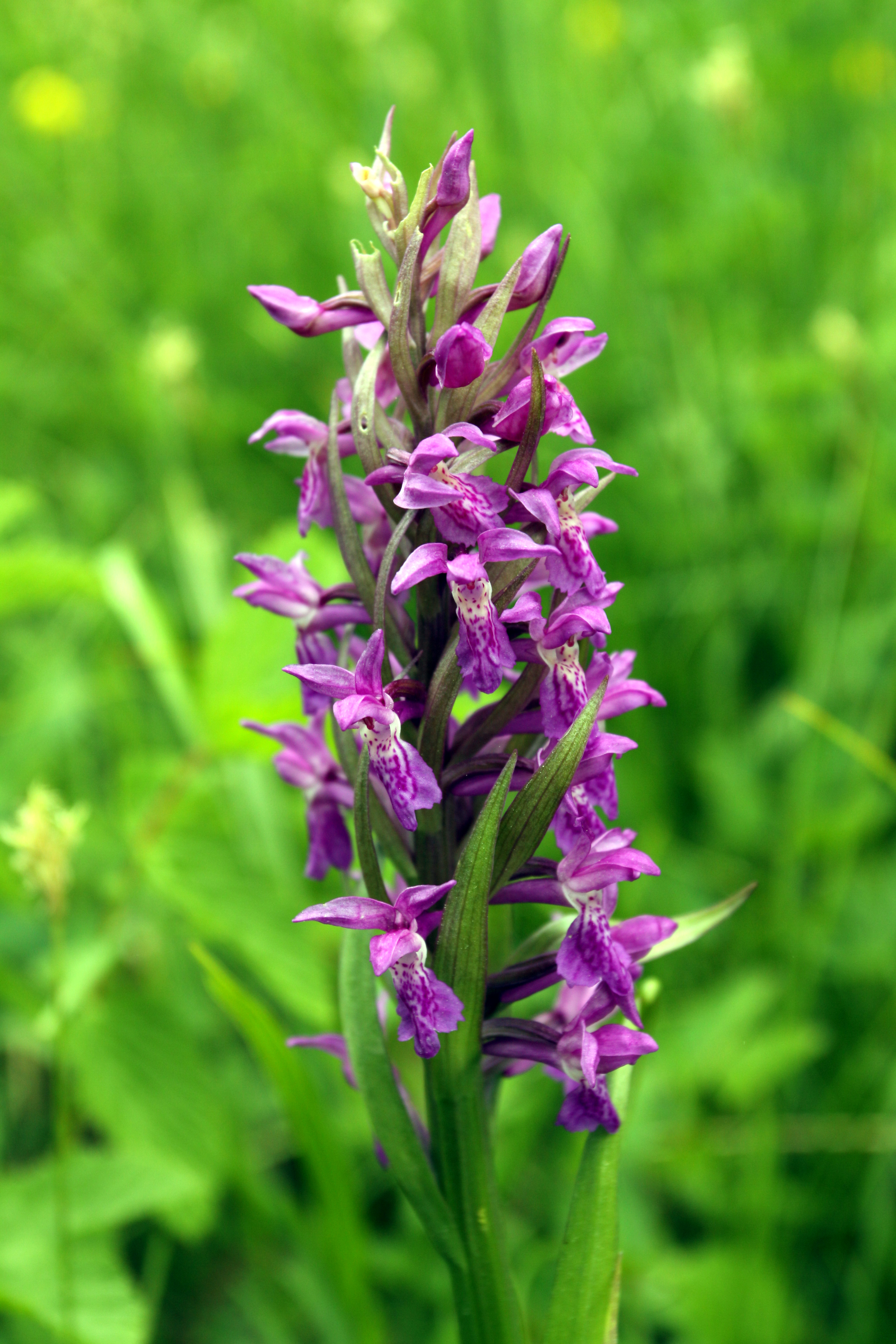 Dactylorhiza majalis in natural monument Kopáčovská near Čimelice, Písek District, Czech Republic - Google Maps - Google Earth